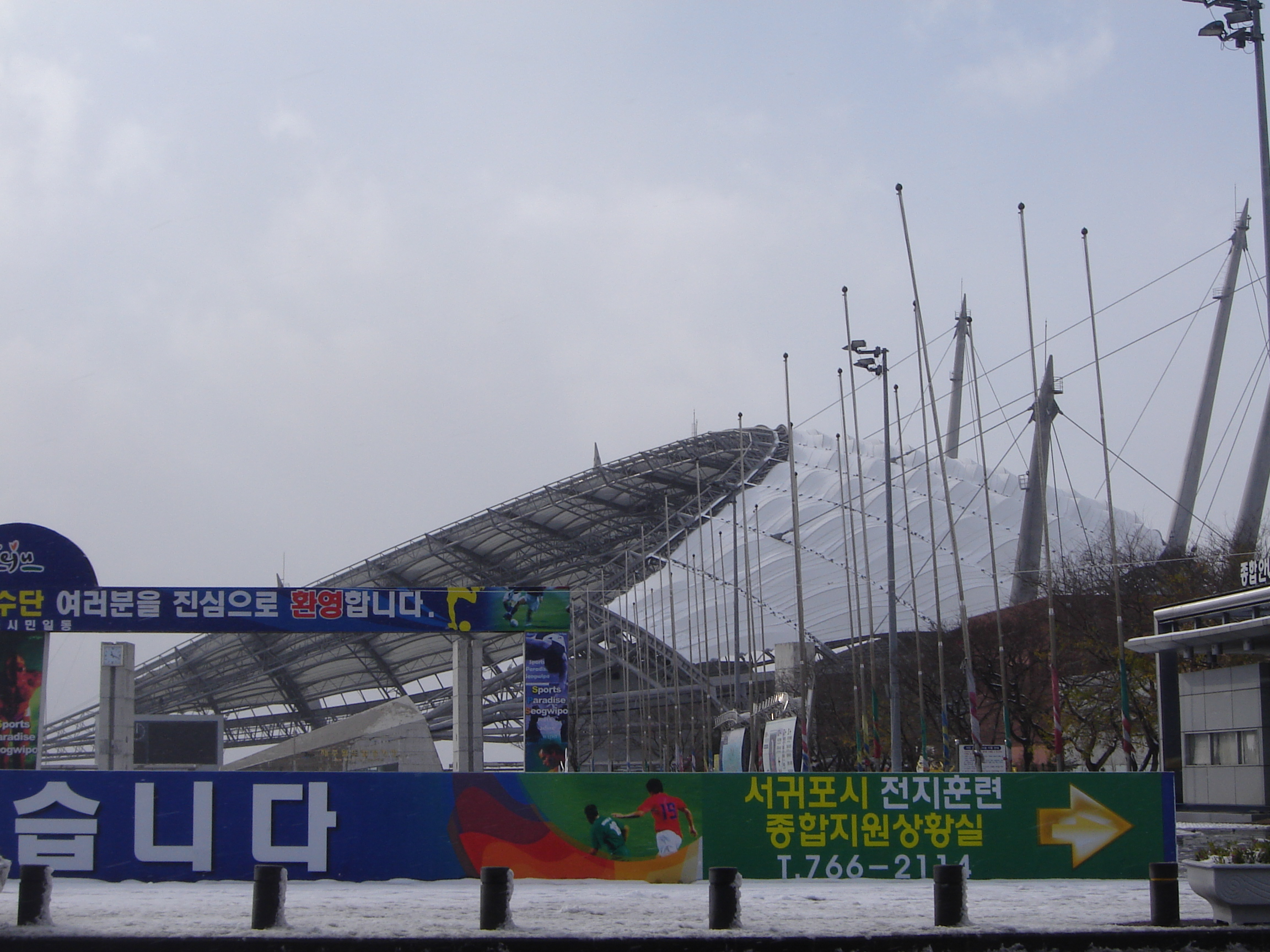 Jeju World Cup Stadium